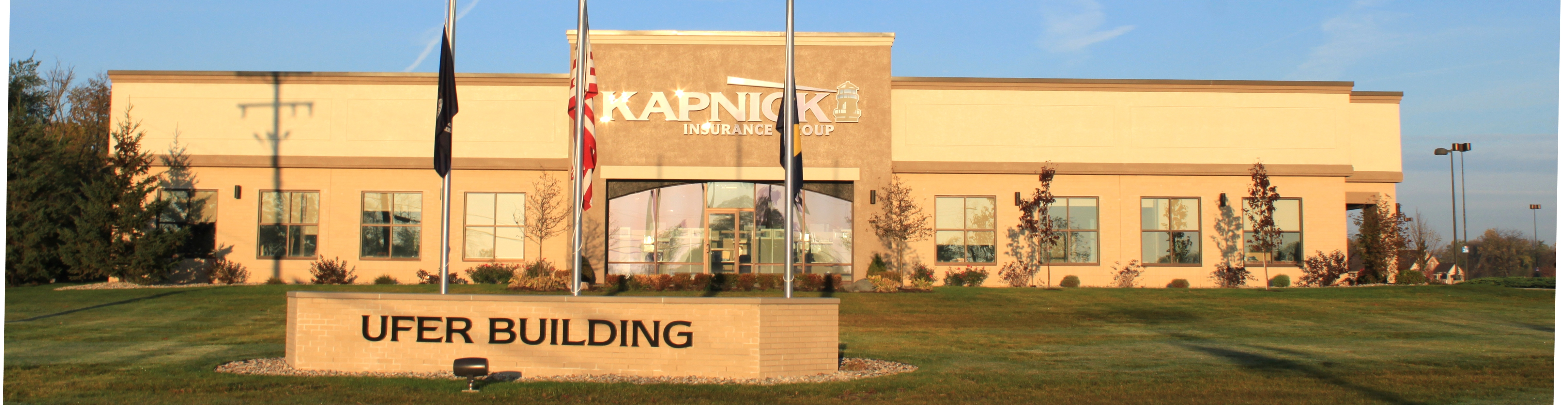 Ufer Building, 1201 Briarwood Circle, Ann Arbor, Michigan. The building in named in honor of Bob Ufer, legendary University of Michigan football radio announcer who founded the insurance sales company which was moved to the renamed building.